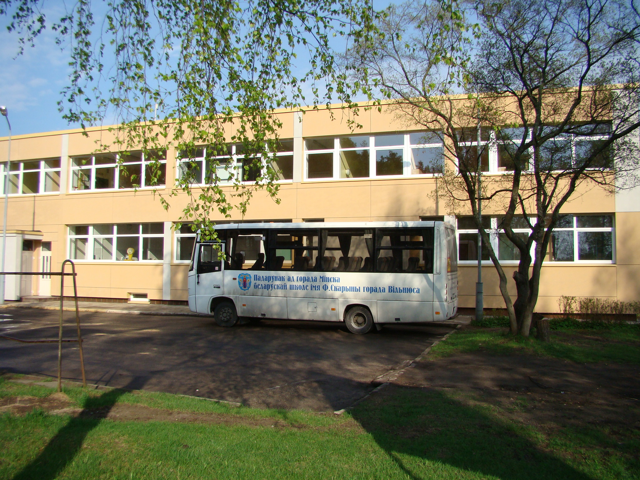 Francysk Skaryna belorussian school in Vilnius. Lithuania.